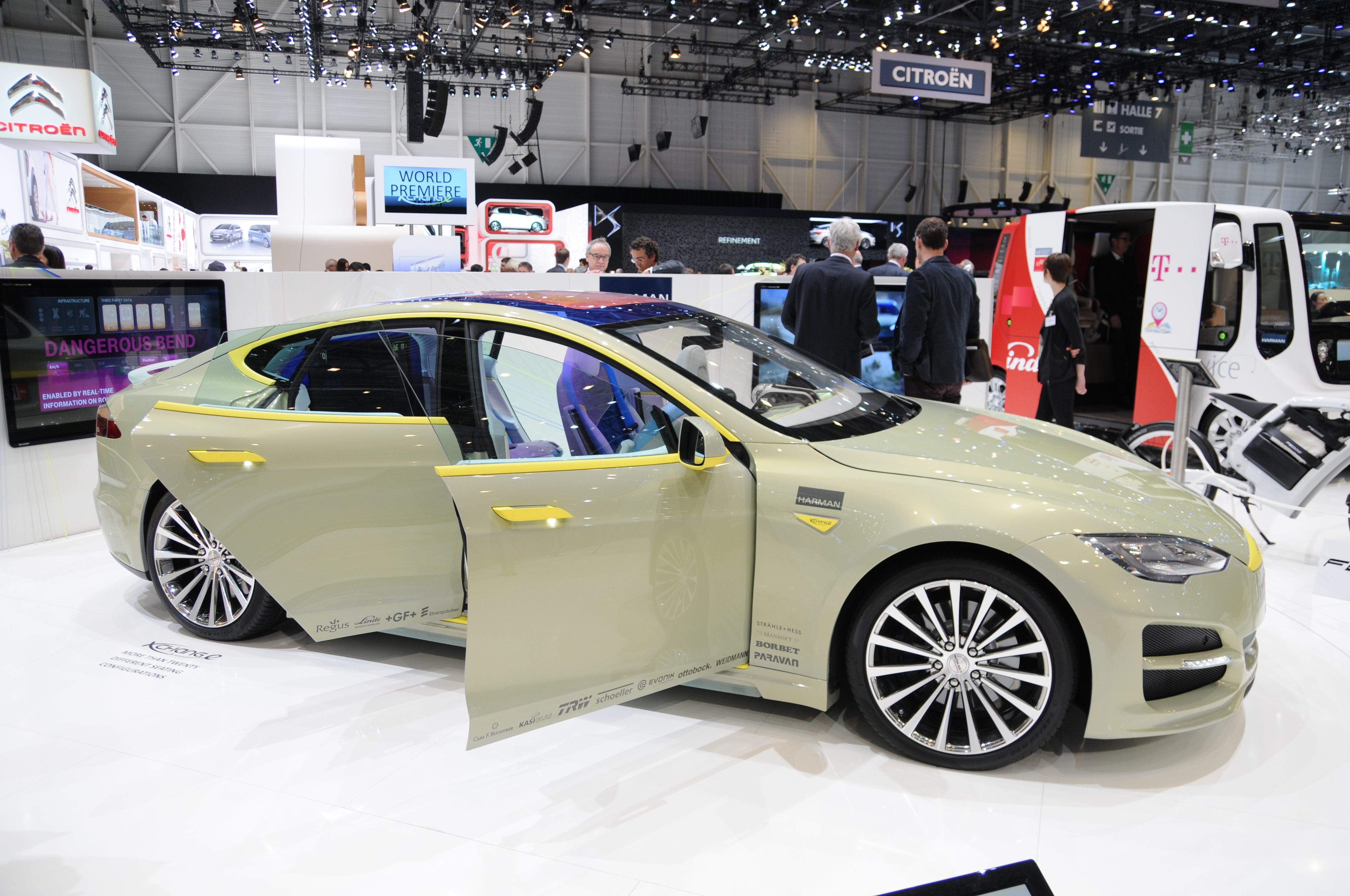 Geneva Motor Show 2014 (photo taken on the first press day)